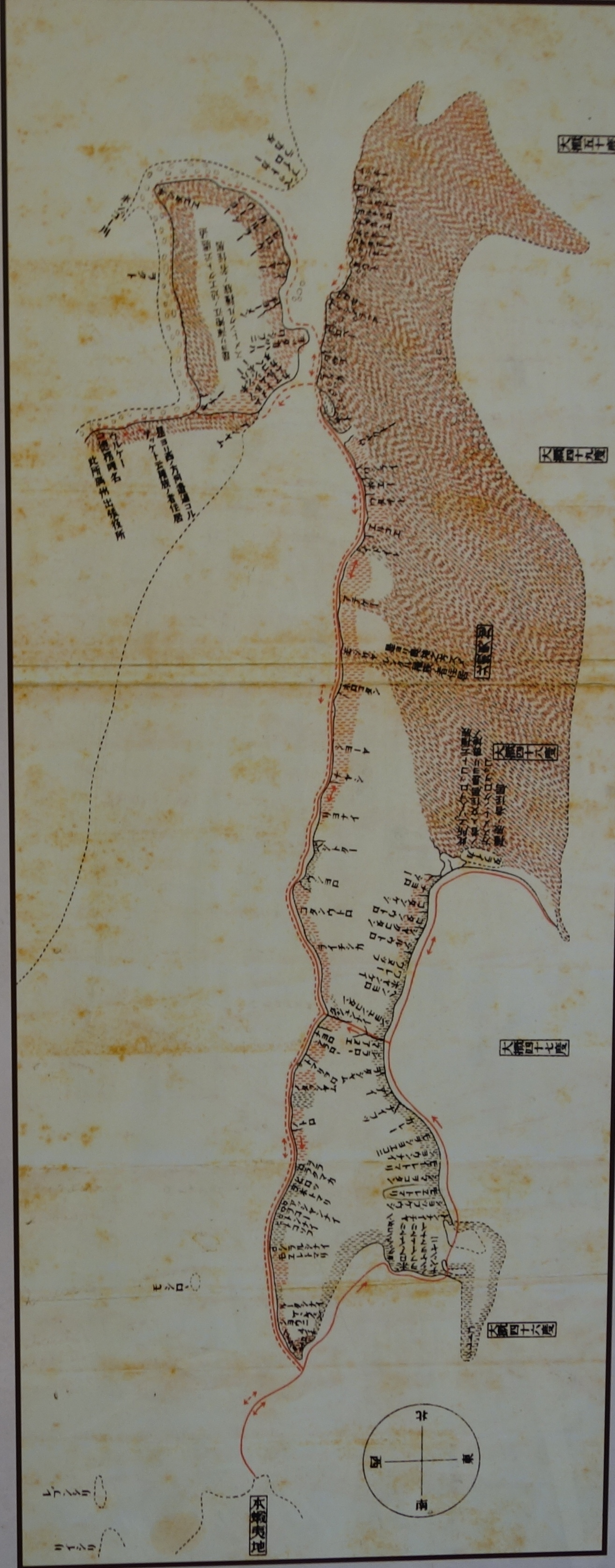 Map of Sakhalin (Karafuto) and Lower Amur, compiled by Mamiya Rinzo in 1810. Photo from the exposition of the Sakhalin Museum of Local Lore.